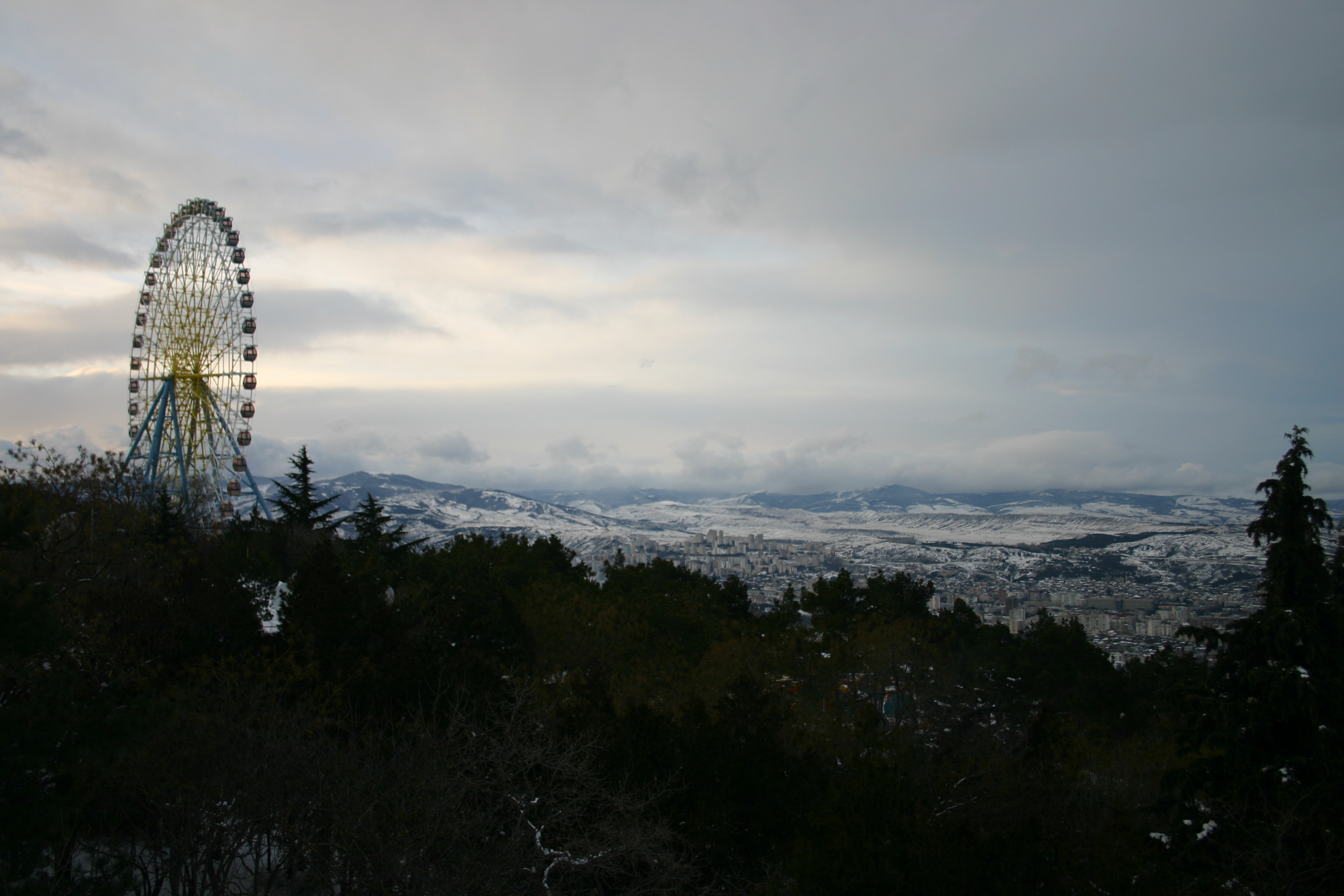 Mtatsminda park January 2013 after a little snow